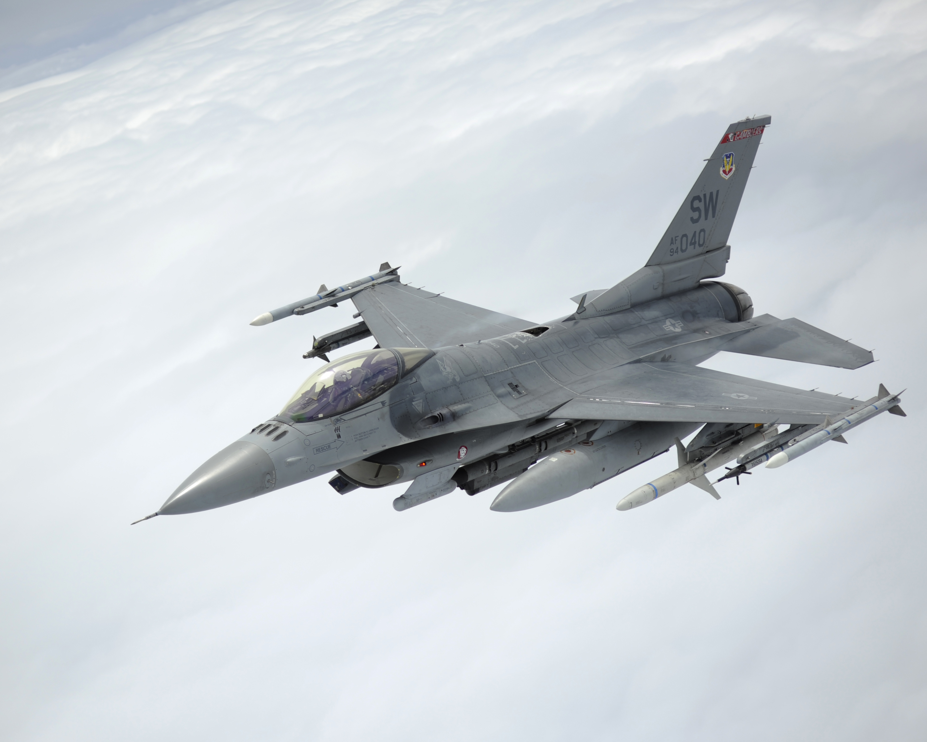 An F-16 Fighting Falcon departs after being refueled by a KC-135 Stratotanker during Sentry Savannah 16-3, Aug. 3, 2016. The F-16 is highly maneuverable and has proven itself in air-to-air combat and air-to-surface attack. (U.S. Air Force photo/Senior Airman Solomon Cook)